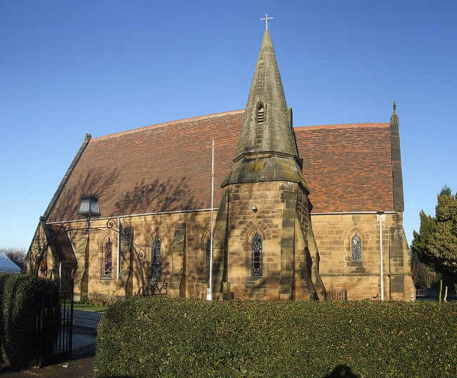 St. Paul's Church, Dosthill. St.Paul's church in Dosthill is a Victorian building, the foundation stone was laid by Mr Farmer Cheatle in 1870. The stone for this church was quarried from the 1074776 in nearby Whateley. The church has a number of quite recent stained glass windows.